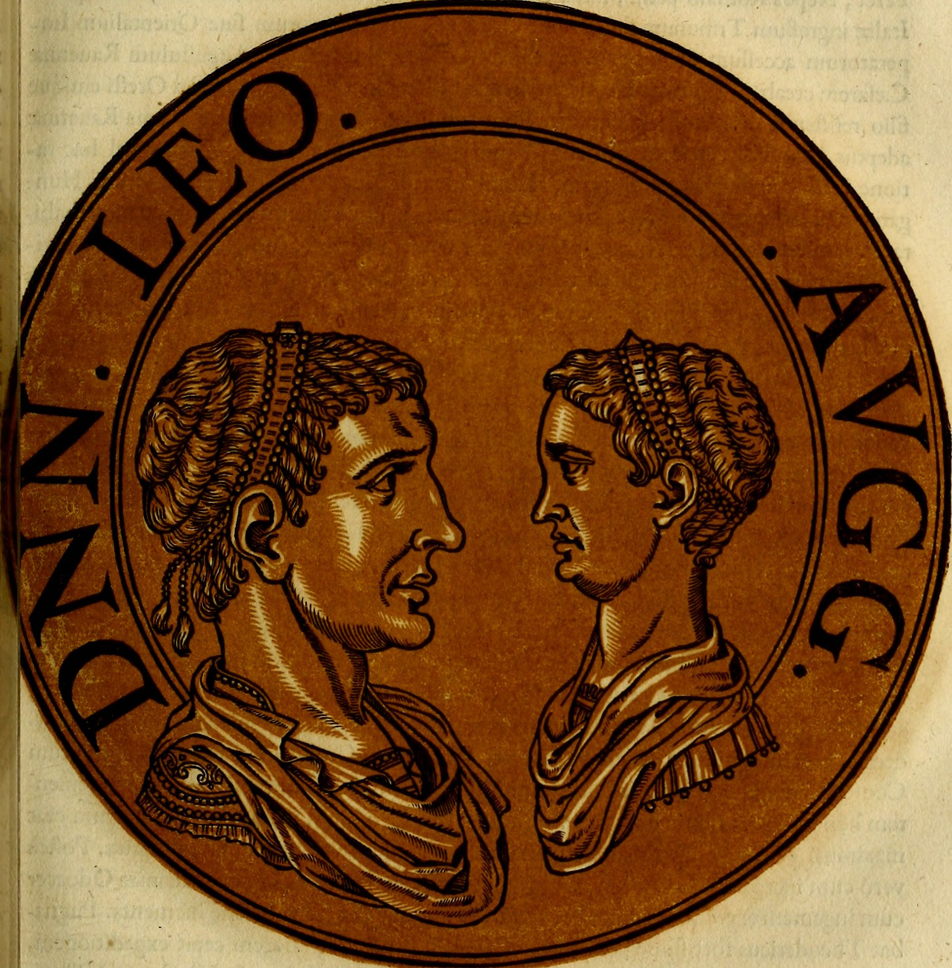 Title: Icones imperatorvm romanorvm, ex priscis numismatibus ad viuum delineatae, & breui narratione historicâ Year: 1645 (1640s) Authors: Goltzius, Hubert, 1526-1583 Gevaerts, Jean-Gaspard, 1593-1666 Rubens, Peter Paul, 1577-1640 Subjects: Emperors Emperors Numismatics, Roman Publisher: Antverpiae, Ex officina plantiniana Balthasaris Moreti Text Appearing Before Image: m in Italiam impediret. Interea fenior Impe-rator Leo vita deceflit. Turn Bafilifcus Imperator publice declarabatur. Hiefuo ciim exercitu Romam profedus,confeftim in Baiilicam D.Petrifugam ce-pit: currtOjUelmperiaie diadema altari impofuiflet, vna cum vxoreZenobia vtibaptizaretur,feftinauit. Sed Conftantinopoli Zenorerum pptitus eft.Nam Leoob astatem iuuenilem huic Zenoni vitrico fuo Imperij coronam imponebat.Hac tempeftate Chriftiana fides primo in Gallia praedicari ccepta eft. Nee fanemulto poll: Clodoueus quintus Francorum Rex in Gallia-ab Antiftite Remigiobaptizatus eft occafigne infignis cuiufdam vidorias, qua potitus fuifTet in Ger-manos, qui Franciam inferiorem feu Galliam Belgicam inuadebant vaftabant-ojue. Hie Clodoueus Infignia Gallica, tres nimirum bufones, in tria aurea Jiliamutauit. Infcriptionem huius nummi equidem non vidi: facile tamen illudcolligi poteft, nomen iunioris Imperatoris in vacuo fuiiTe fcriptum. I7S LXXXVIL LXXXVIII. AMICVM POSSIDE, VTINIMICVM FIERI PVTES. Text Appearing After Image: Imperio prasfuerunt X v I. annis; vterquc naturali morte occubuit.